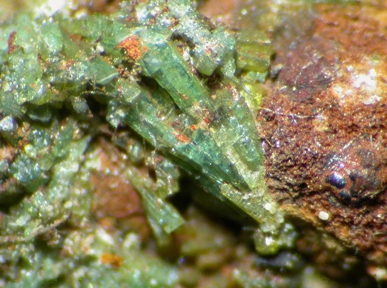 Zincolivenite Locality: Agios Konstantinos [St Constantine] (Kamariza), Lavrion District Mines, Lavreotiki District, East Attica Prefecture, Attica, Greece (Locality at ) Green thick prismatic crystals of Zincolivenite. Fully analysed by S. Möckel, co-author of this new species. Field of view 4 mm. Specimen and photo Leon Hupperichs.